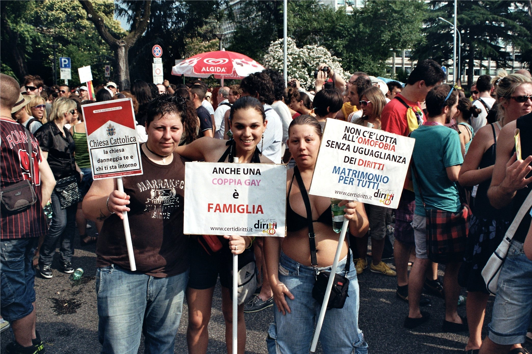 Lesbian girls advocating for gay family. On the left the Marlboro-shaped banner reads «Catholic Church» and the disclaimer «Catholic Church may damage you and who's around you»; at the centre the banner reads «A gay couple is a family, too»; the banner on the right reads «There's no struggle against homophobia without equal rights for all; marriage for everyone»